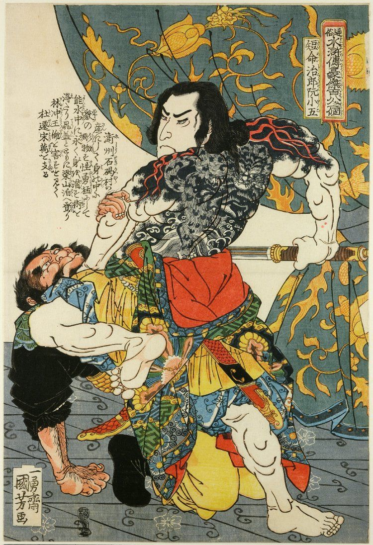 Ruan Xiaowu (阮小五) pressing adversary to floor with knee,+ sword.